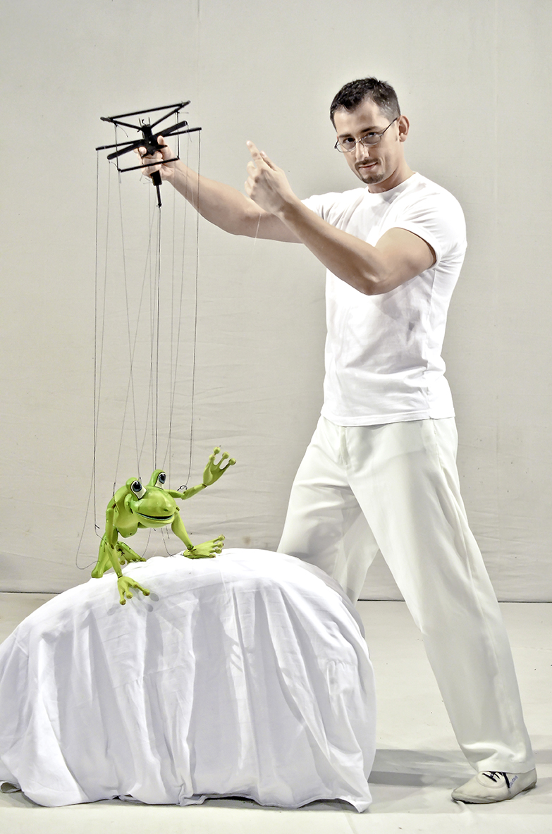 Davorin Dinić i Car zabac